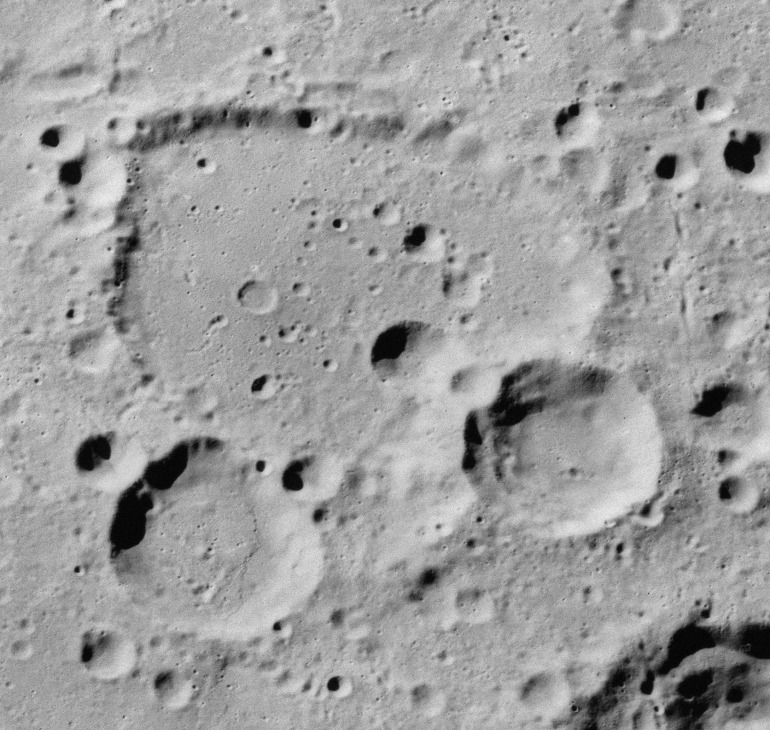 Oblique view of Deutsch, on the far side of the moon. North is in upper right.